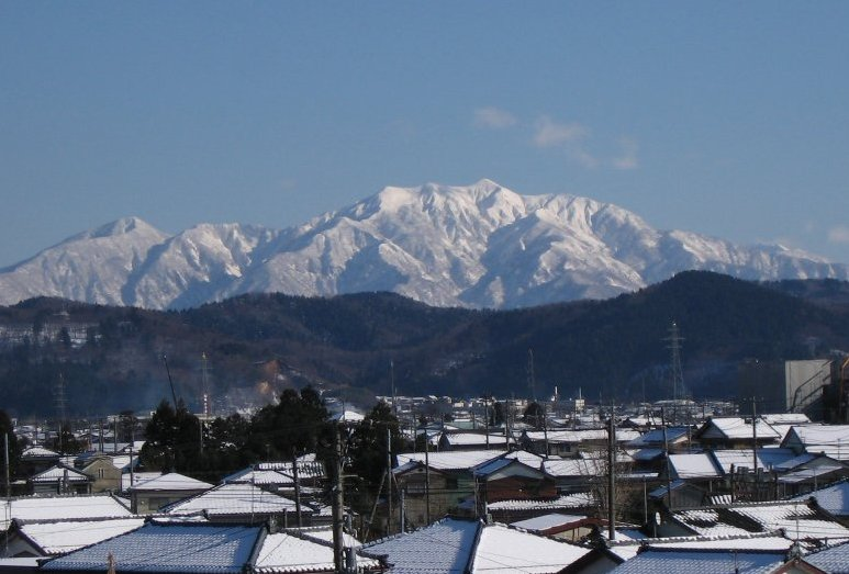 Awagatake as seen from the WNW in Niiigata Prefecture, Japan.